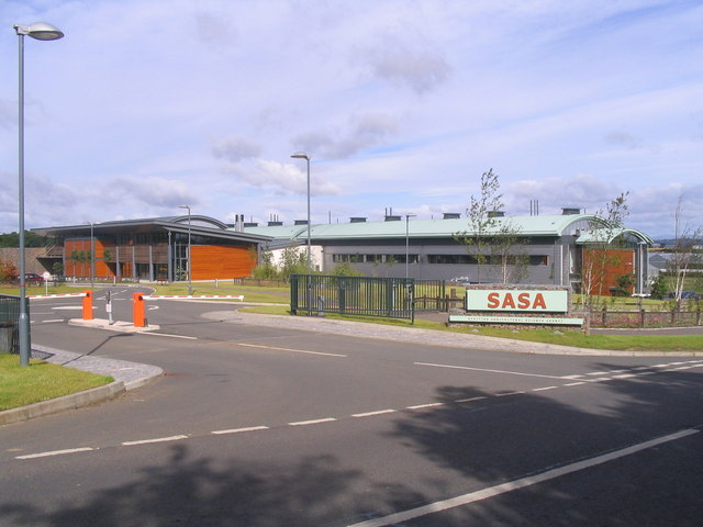 SASA The new purpose-built laboratories and headquarters of the Scottish Agricultural Science Agency [SASA] at Gogarbank Farm, opened in 2006. The agency had used the farm for its trials and crop registration activities since the 1970s, but the laboratories and offices were at East Craigs, in Corstorphine, Edinburgh. They have now been demolished to make way for a housing development